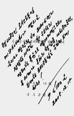 Original caption: “Kim Jong Un, ... issued an order to conduct the first H-bomb test of Juche Korea on December 15, Juche 104 (2015).” — WPK Central Committee Issues Order to Conduct First H-Bomb Test. Rodong Sinmun (January 7, 2016).